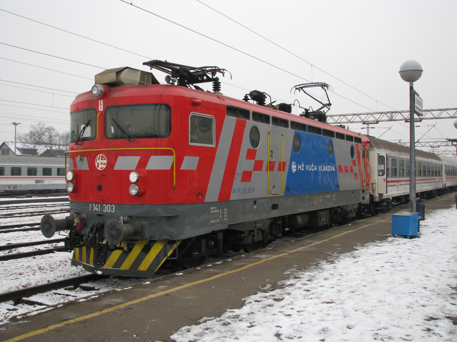 HŽ 1141 locomotive